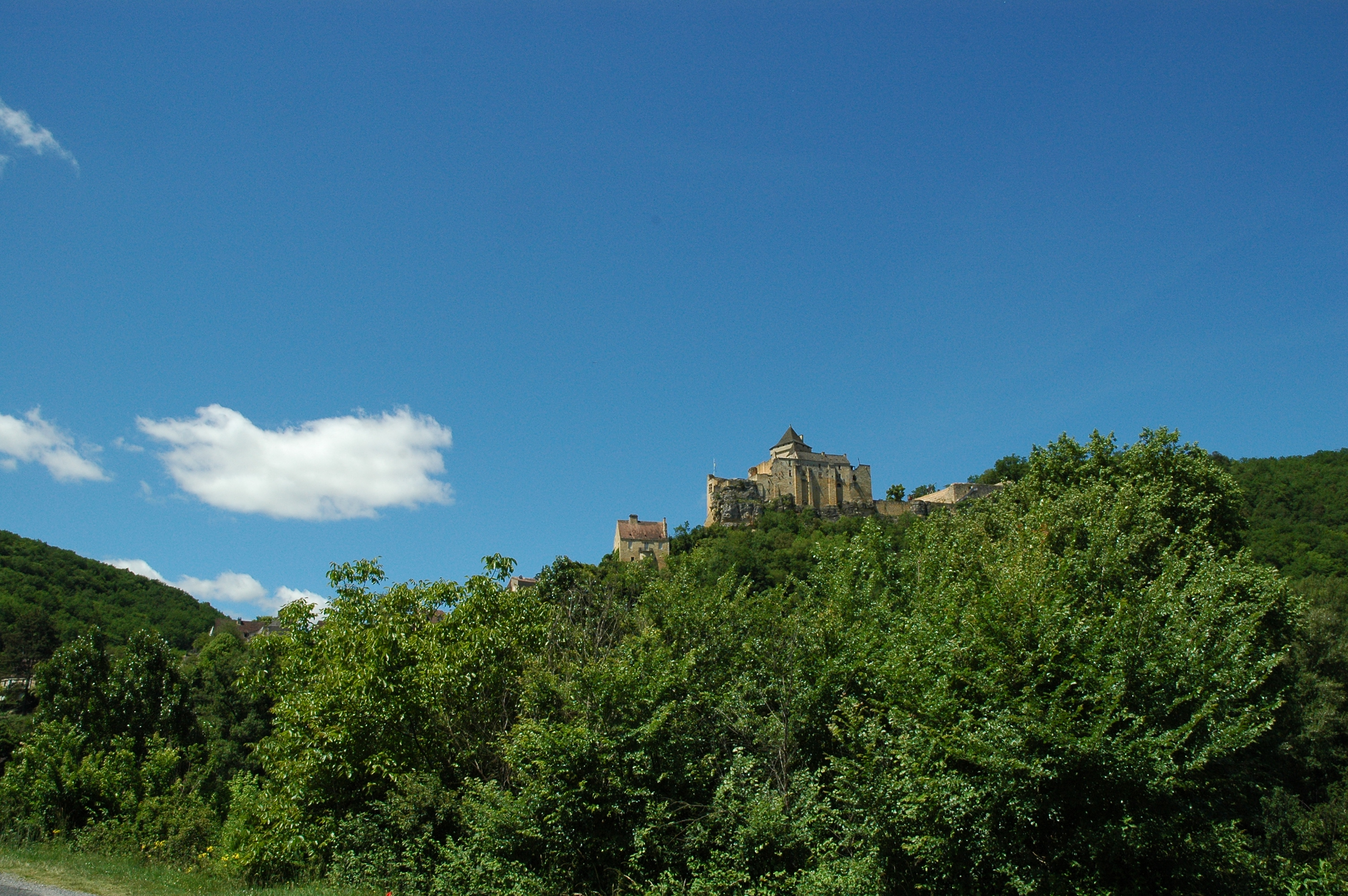 The chateau of Castelnaud-la-Chapelle seen from below